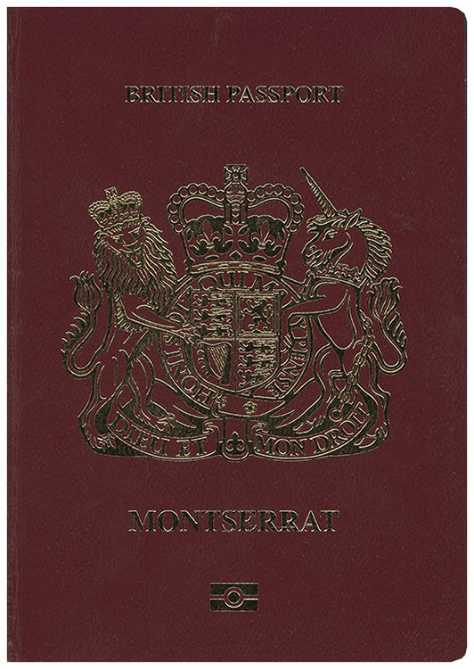 British passport (Montserrat)